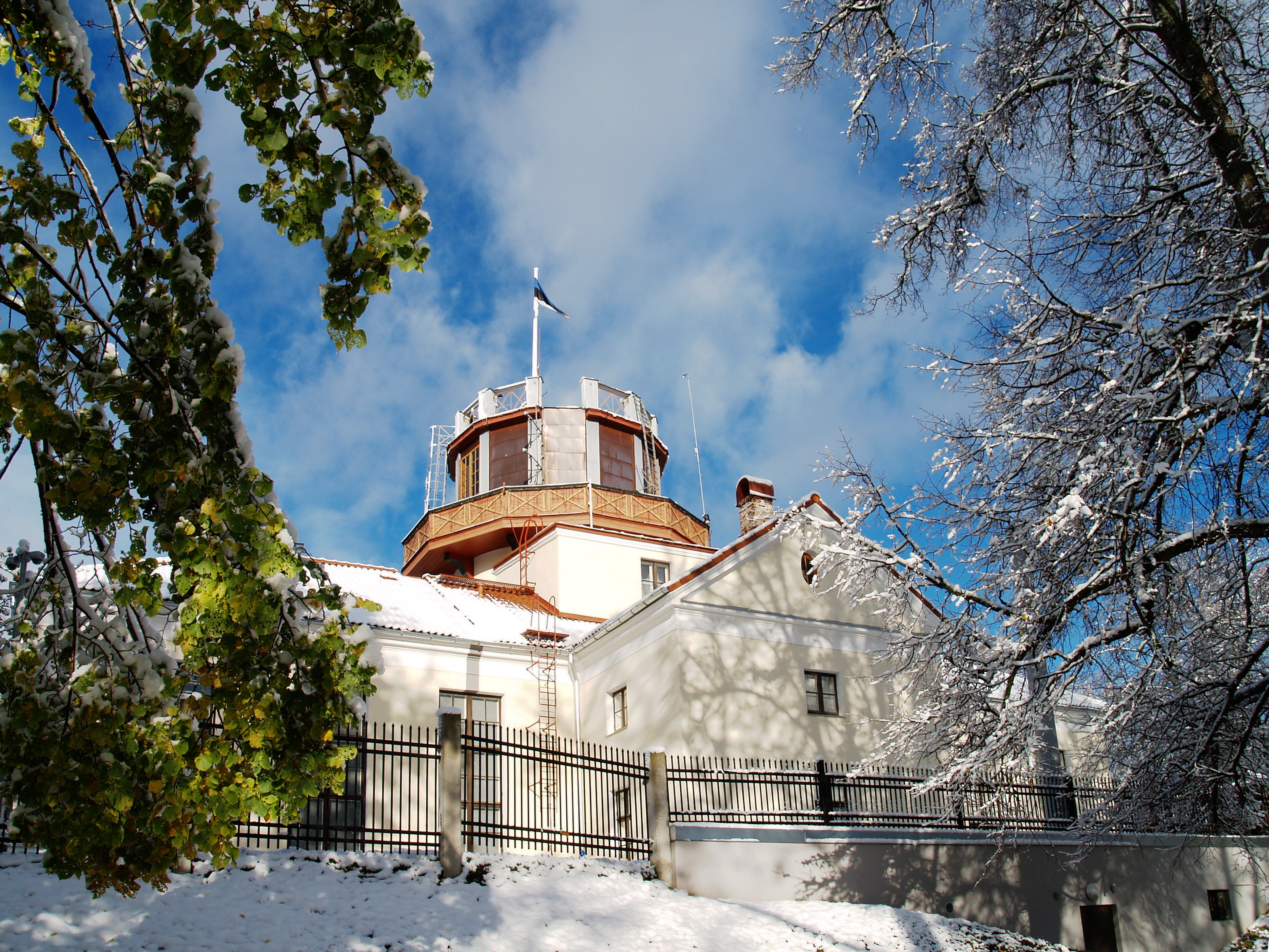 Tartu Old Observatory